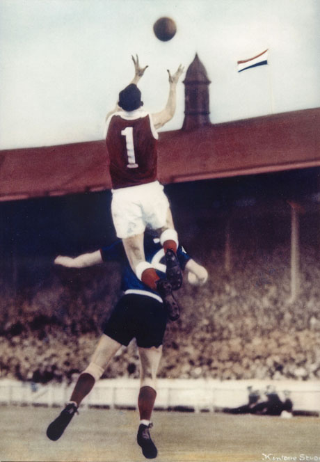 North Adelaide footballer Ian McKay leaps for a spectacular mark in the 1952 SANFL Grand Final